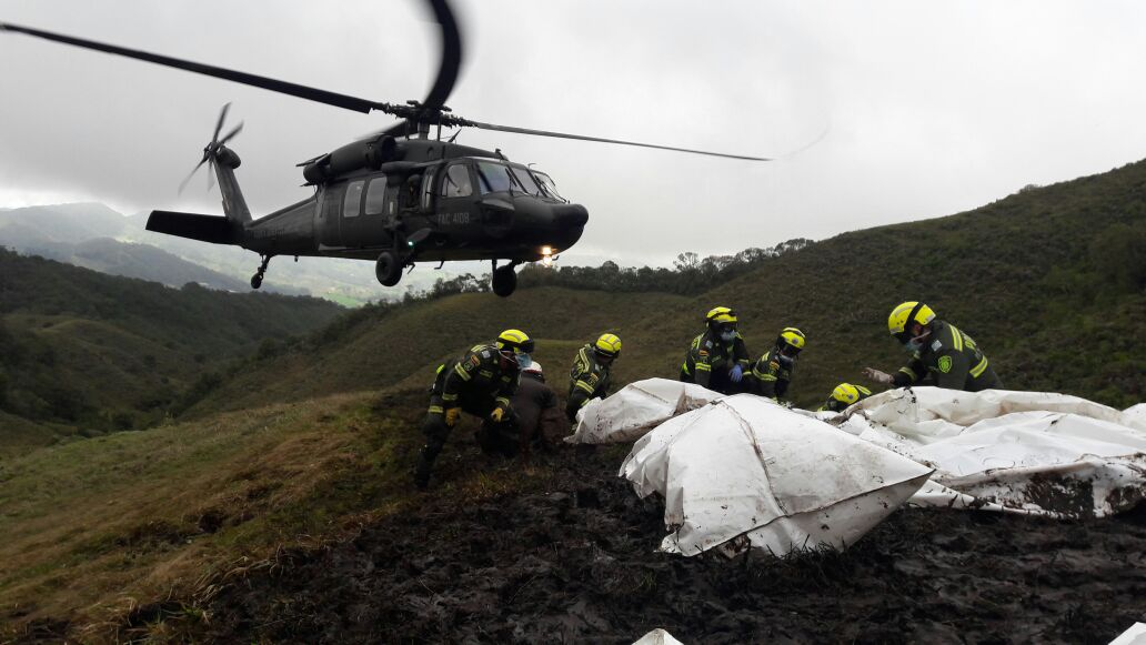 Rescue workers of the National Police of Colombia at the crash site of LaMia Airlines Flight 2933, near La Unión, Antioquia.